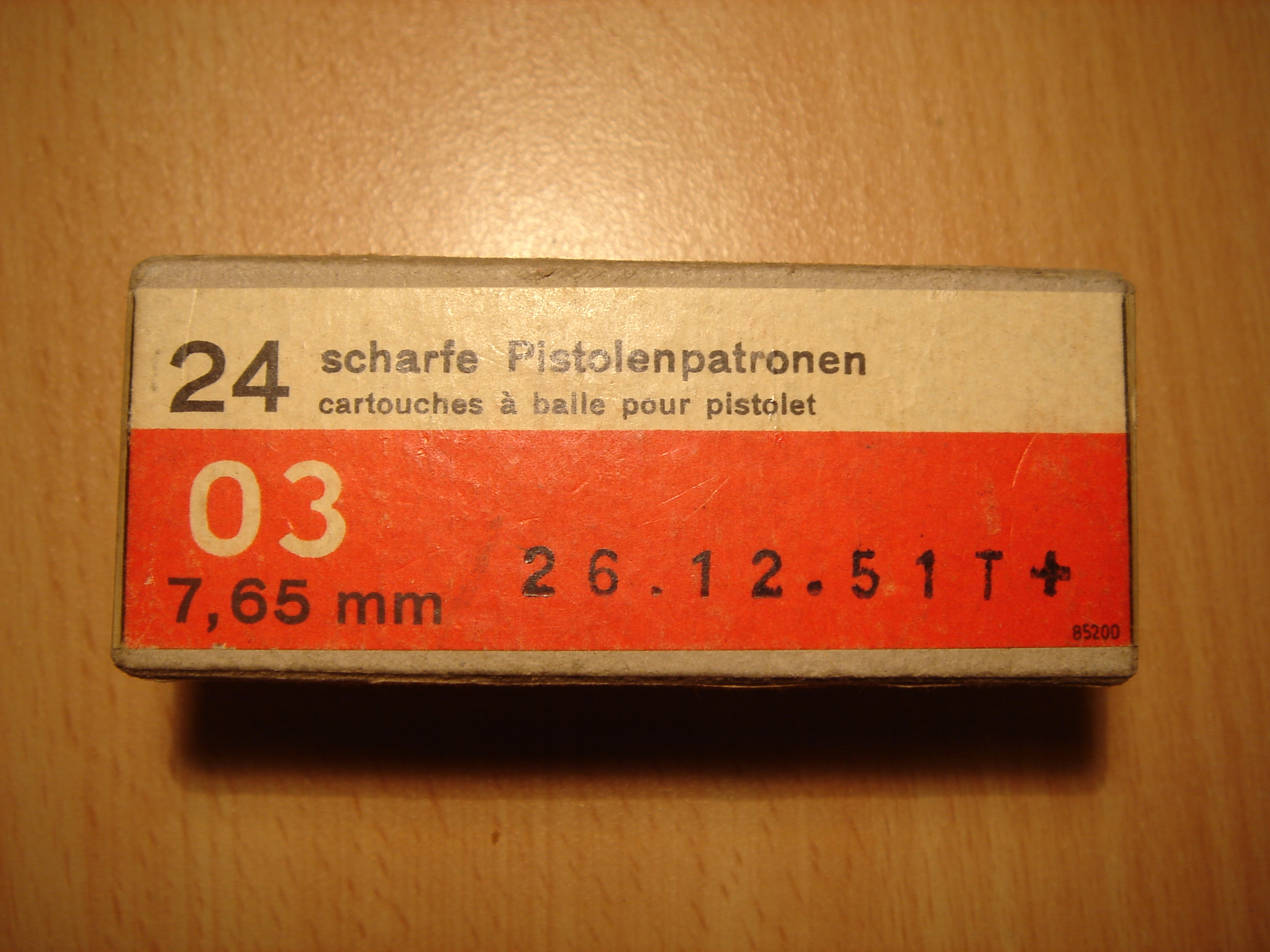 Swiss Army 7.65mm Parabellum last batch. The box appears to be date-stamped 26 December 1951